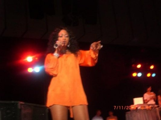 This is a picture from an event on July 11, 2008. In this photo Trina is performing in front of a live audience in Baltimore MD.